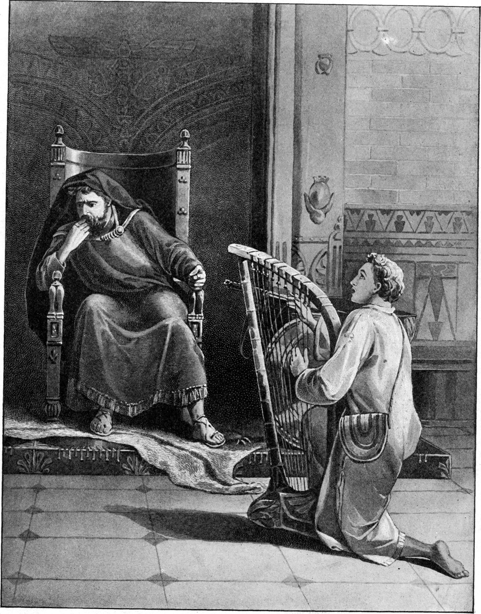 DAVID PLAYING THE HARP BEFORE KING SAUL.—1 Samuel xvi. 23.